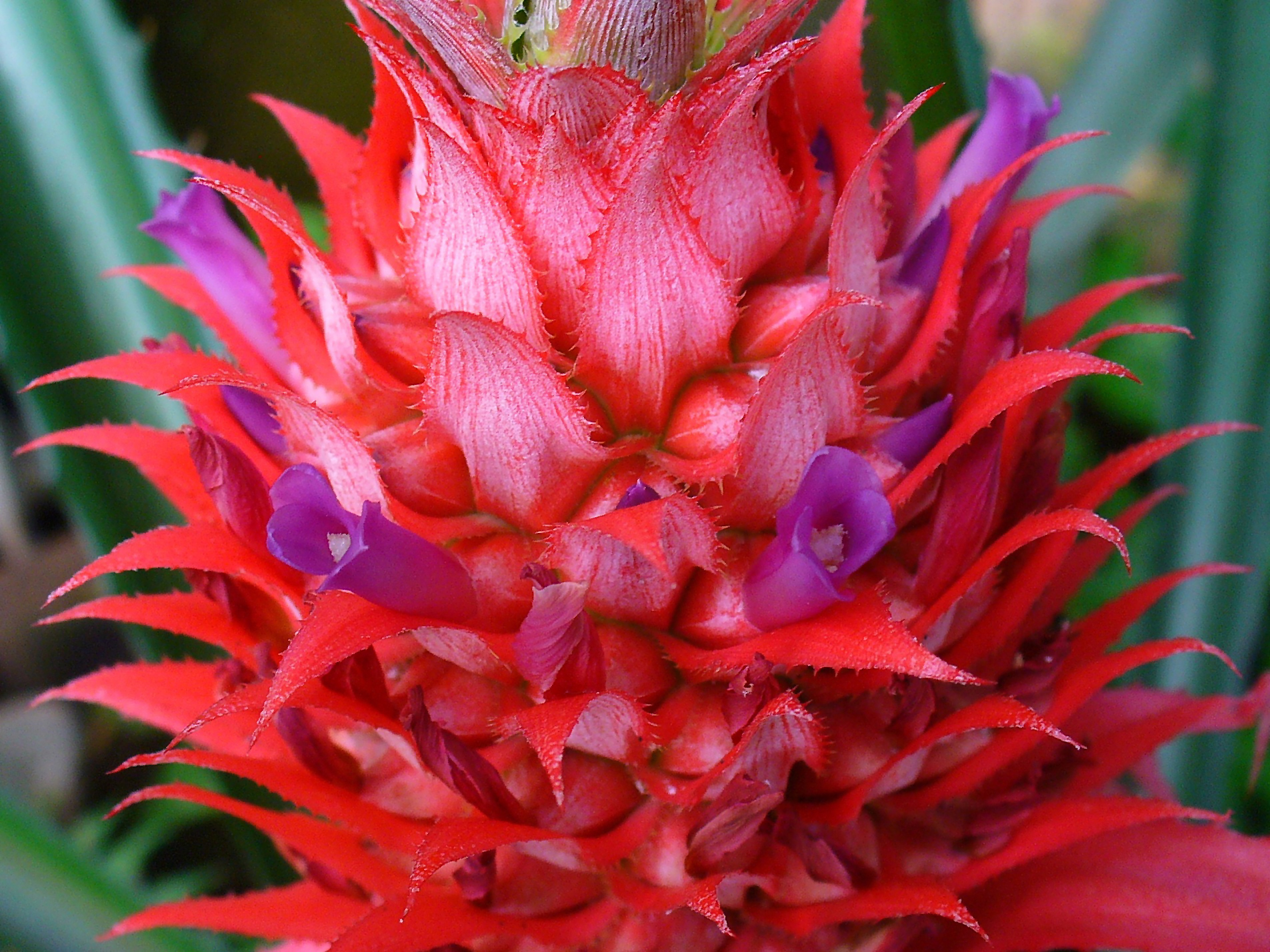 Ananas comosus, Bromeliaceae, Pineapple, flowers; Botanical Garden KIT, Karlsruhe, Germany. The plant is used in homeopathy as remedy: Ananas sativus (Anana-c.)